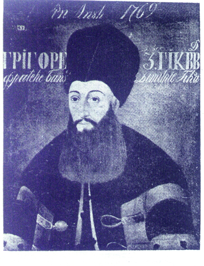 made by Dacodava for free using